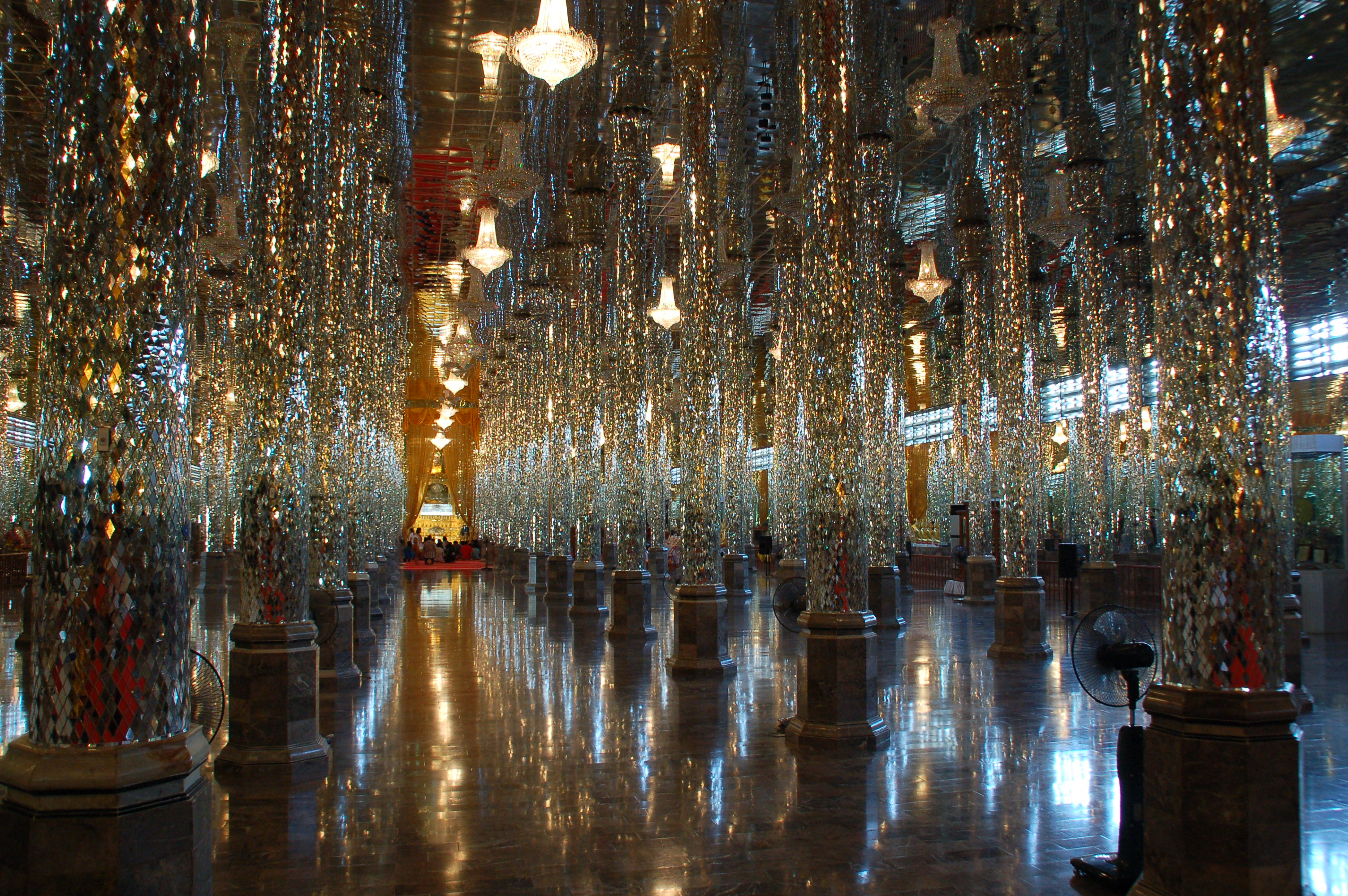 Wat Chantaram (or Wat Tha Sung, Uthai Thani)